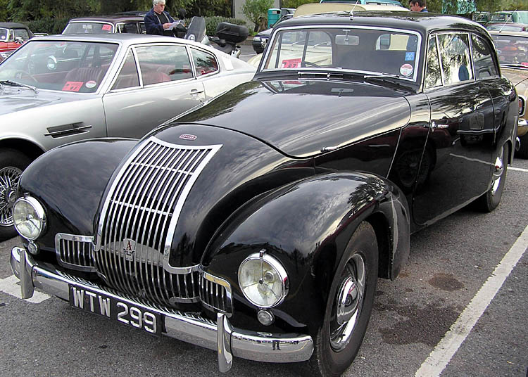 1950 Allard P-series Saloon seen at the Great West Road Run rally at Aust Services, Aust, Bristol, England. This one has the 3.9 litre Canadian-built Mercury engine.